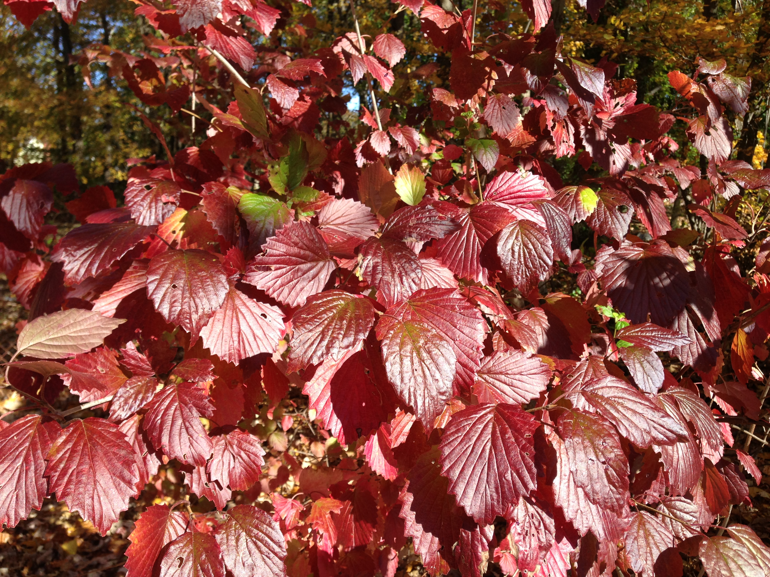 Arrowwood foliage during autumn along Broad Avenue in Ewing, New Jersey